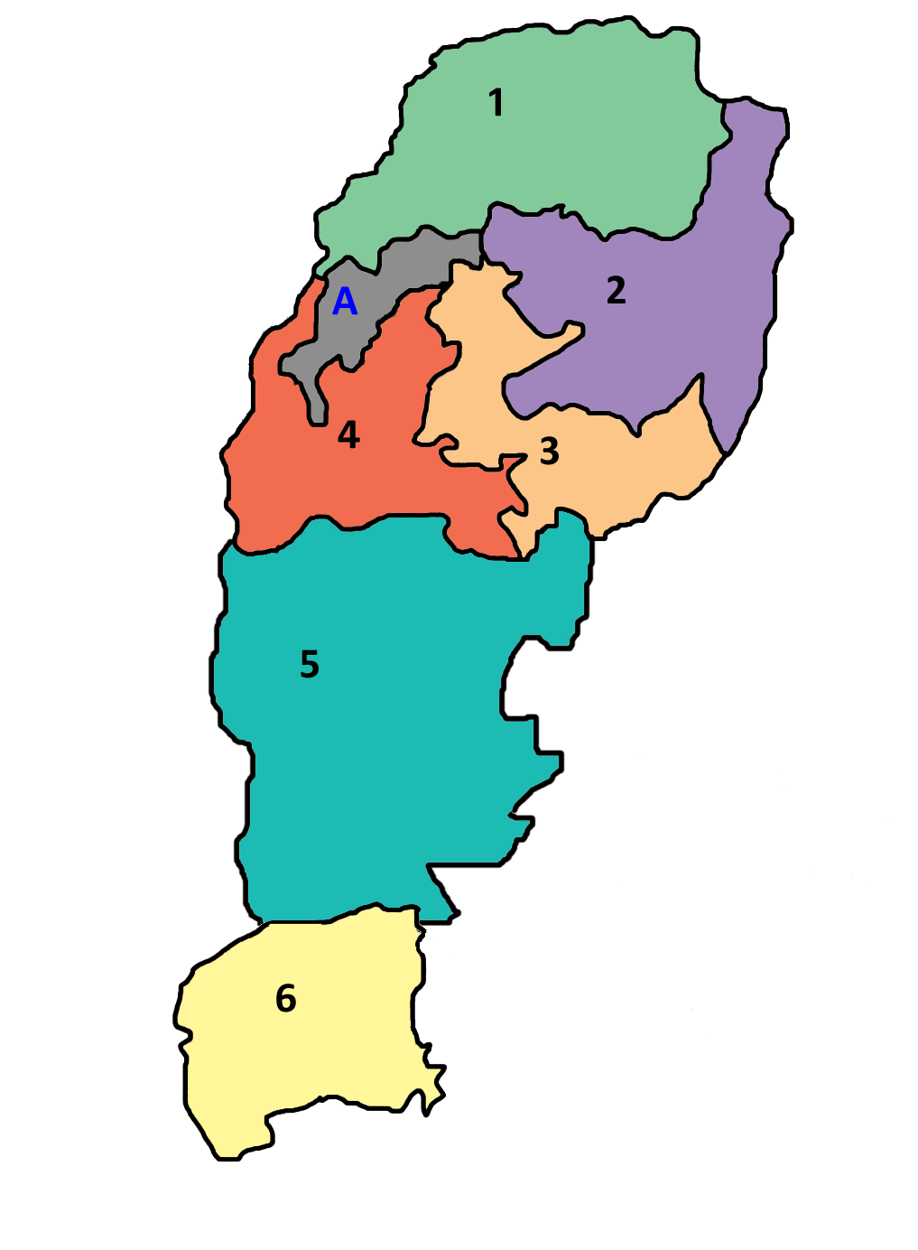 Six Towns and one cantonment of Multan District. 1. Boson Town, 2. Shah Rukan e Alam Town, 3. Mumtazabad Town, 4. Shershah Town, 5. Shujabad Town, 6. Jalalpur Town. A. Multan Cantt.